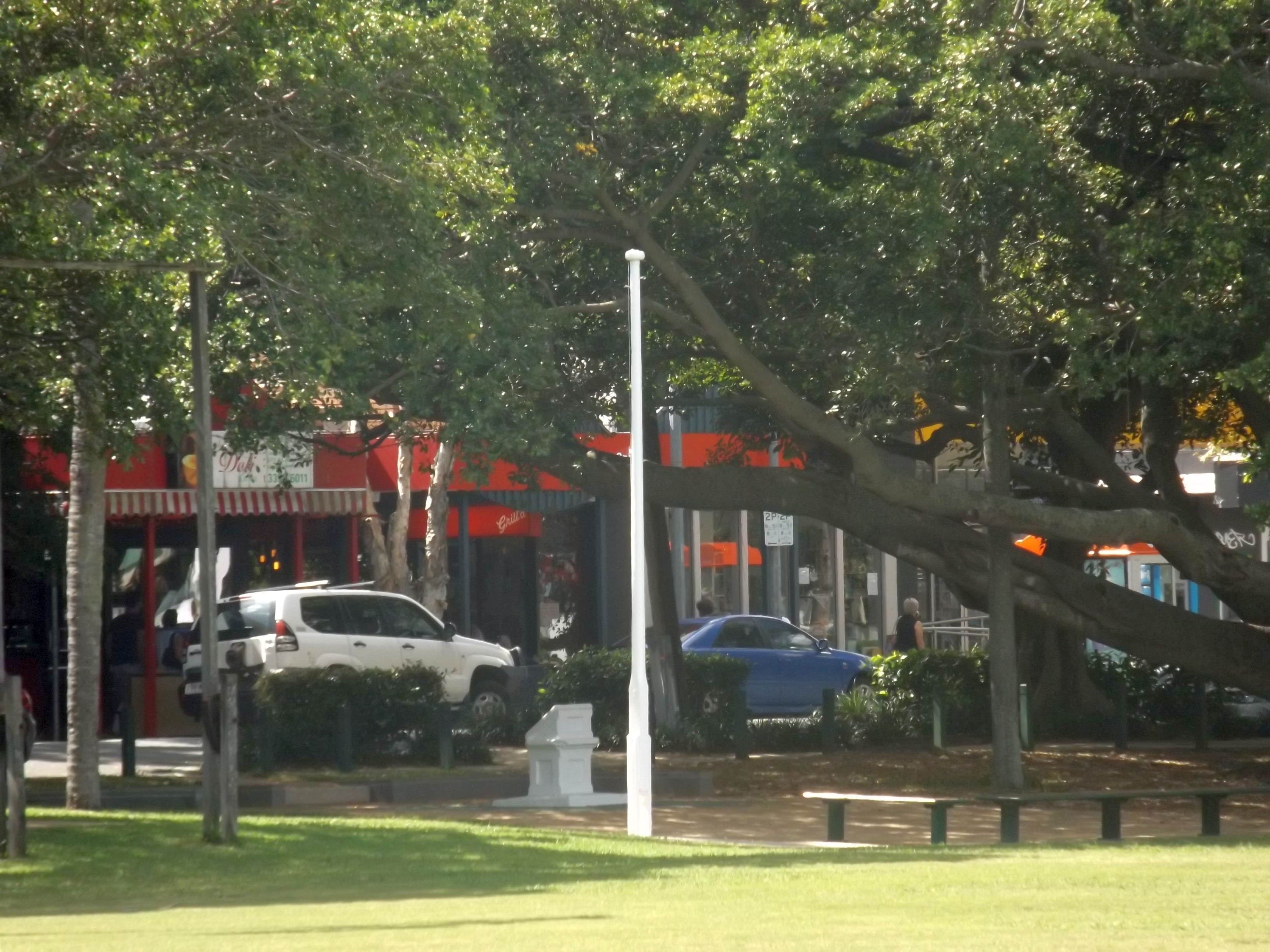 Photo of Bulimba Memorial Park war memorial at Bulimba, Brisbane, Queensland, Australia.